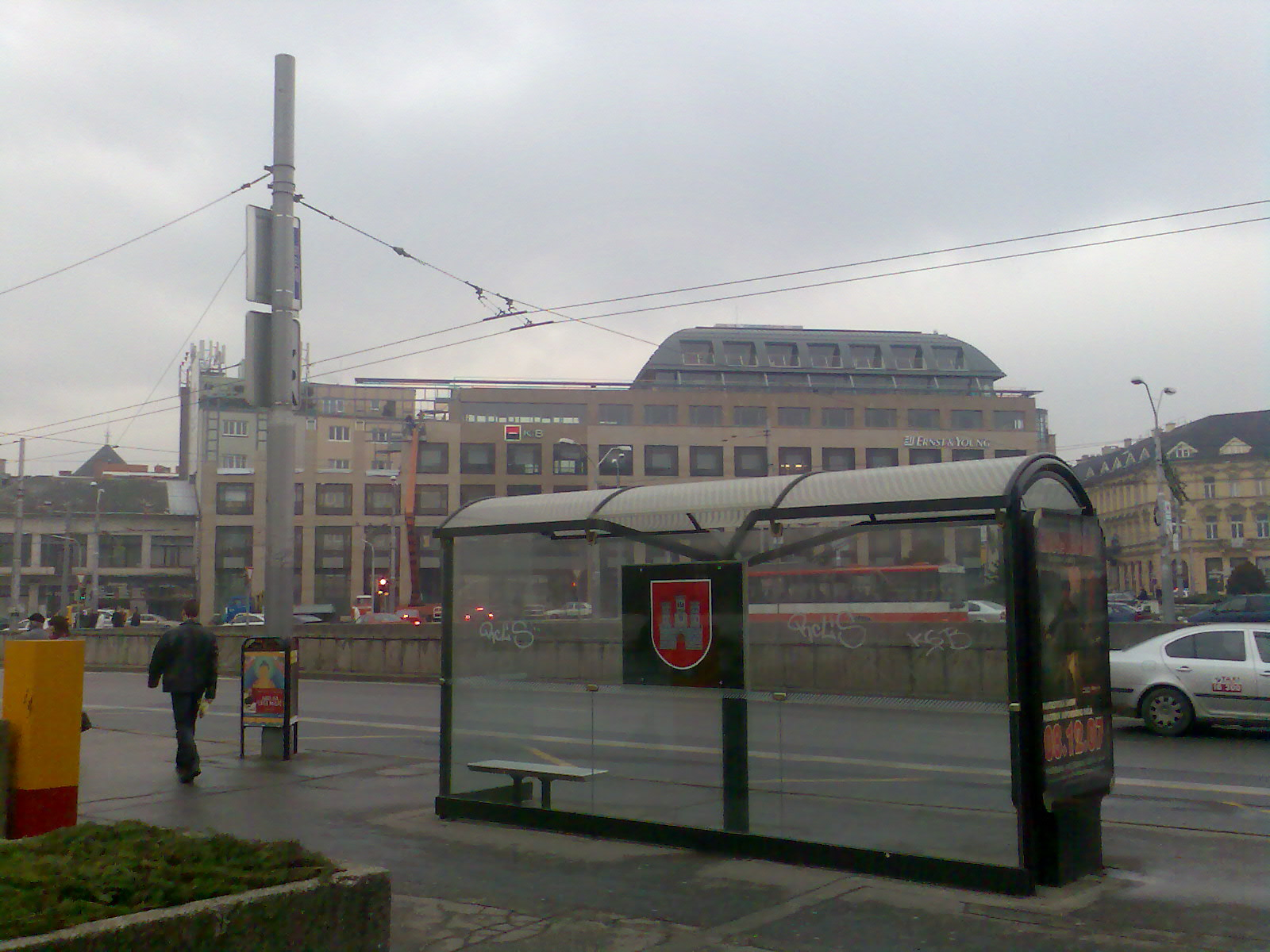 Astoria Palace administrative building on Hodžovo námestie in Bratislava